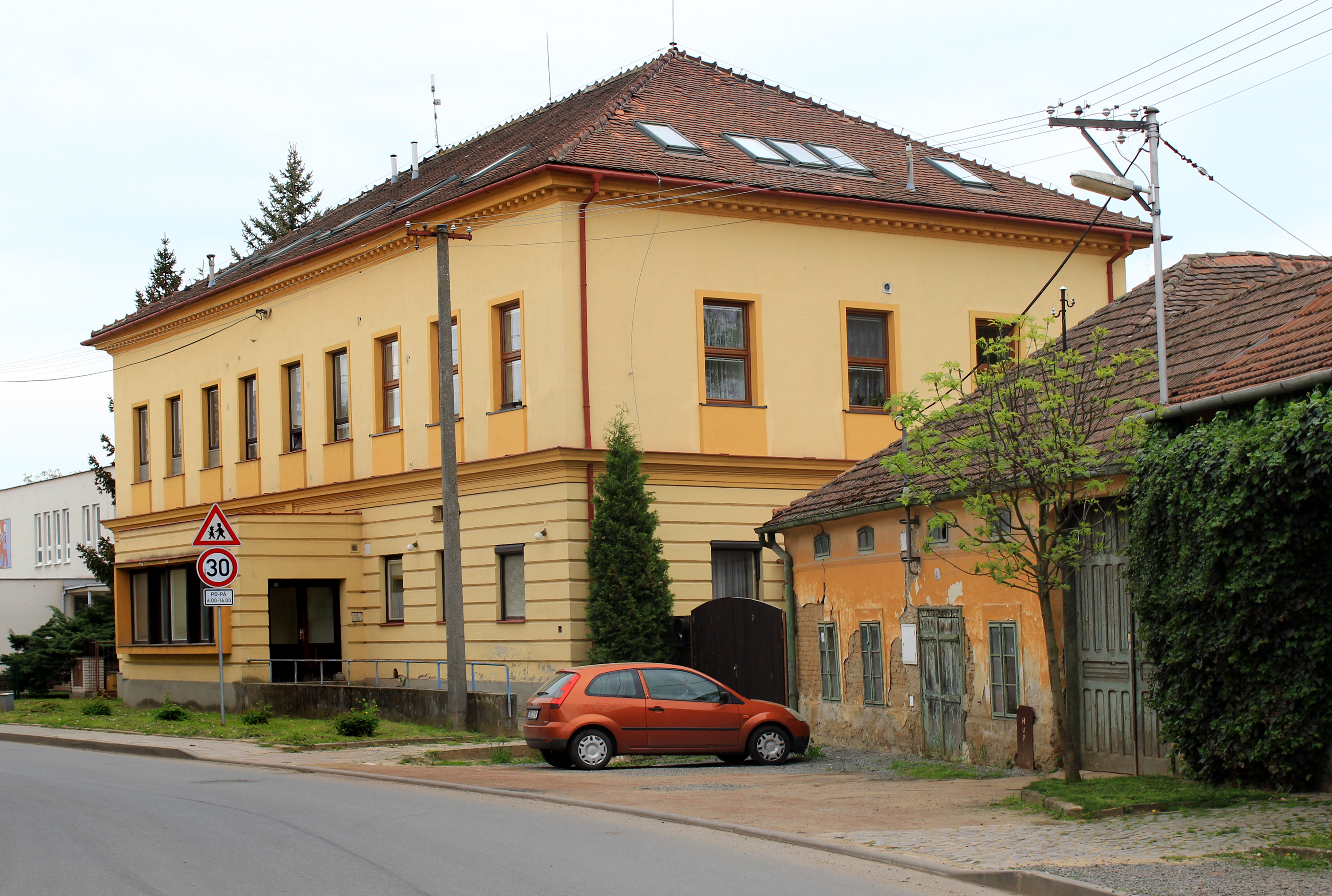 Old school, now a kindergarten in Alexovice, part of Ivančice, Czech Republic.